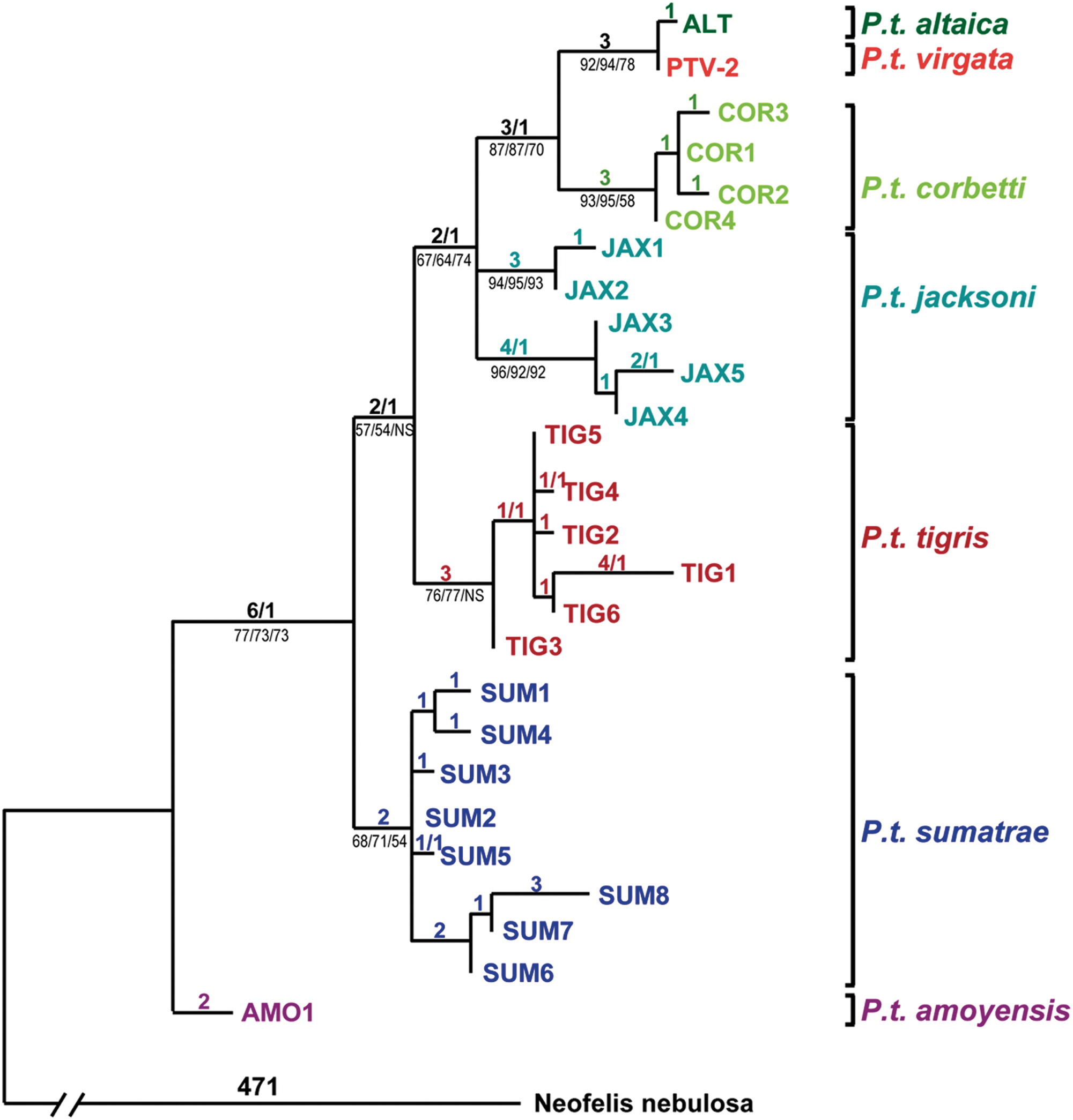 Haplotype designations are color coded by subspecies of the tigers that carried them. PTV-2 is a Caspian tiger (Panthera tigris virgata) specimen for which all gene segments attempted (1257 bp) in Caspian tigers were successfully sequenced. Other Caspian tigers produced partial sequences identical to PTV-2. The only exceptions were three individuals, each displaying a single derived nucleotide difference when compared to PTV-2 (found only in that individual and in no other tigers of any subspecies). Likewise, the only mtDNA haplotype carried by Amur or “Siberian” tigers (P. t. altaica) proved to be a single derived step away from the haplotype of PTV-2, suggesting a close relationship between the Amur and Caspian tiger subspecies. Tiger haplotypes carried by all but the Caspian subspecies are from a previously published dataset, while a clouded leopard (Neofelis nebulosa) sequence (GenBank DQ257669) was used to root the tree. The tree depicted was inferred using maximum parsimony, with the number of steps/homoplasies listed above the branches, while (for major clades) bootstrap percentages are listed below branches for maximum parsimony, maximum likelihood and Neighbour Joining methods. We used full length mtDNA sequences of clouded leopard, leopard and snow leopard to root the tree; all combinations of 1, 2 or 3 outgroups yielded trees with similar topology to the one depicted, with the same basal position for the P. t. amoyensis AMO1 haplotype, and a close relationship between P.t. virgata and P. t. altaica haplotypes.